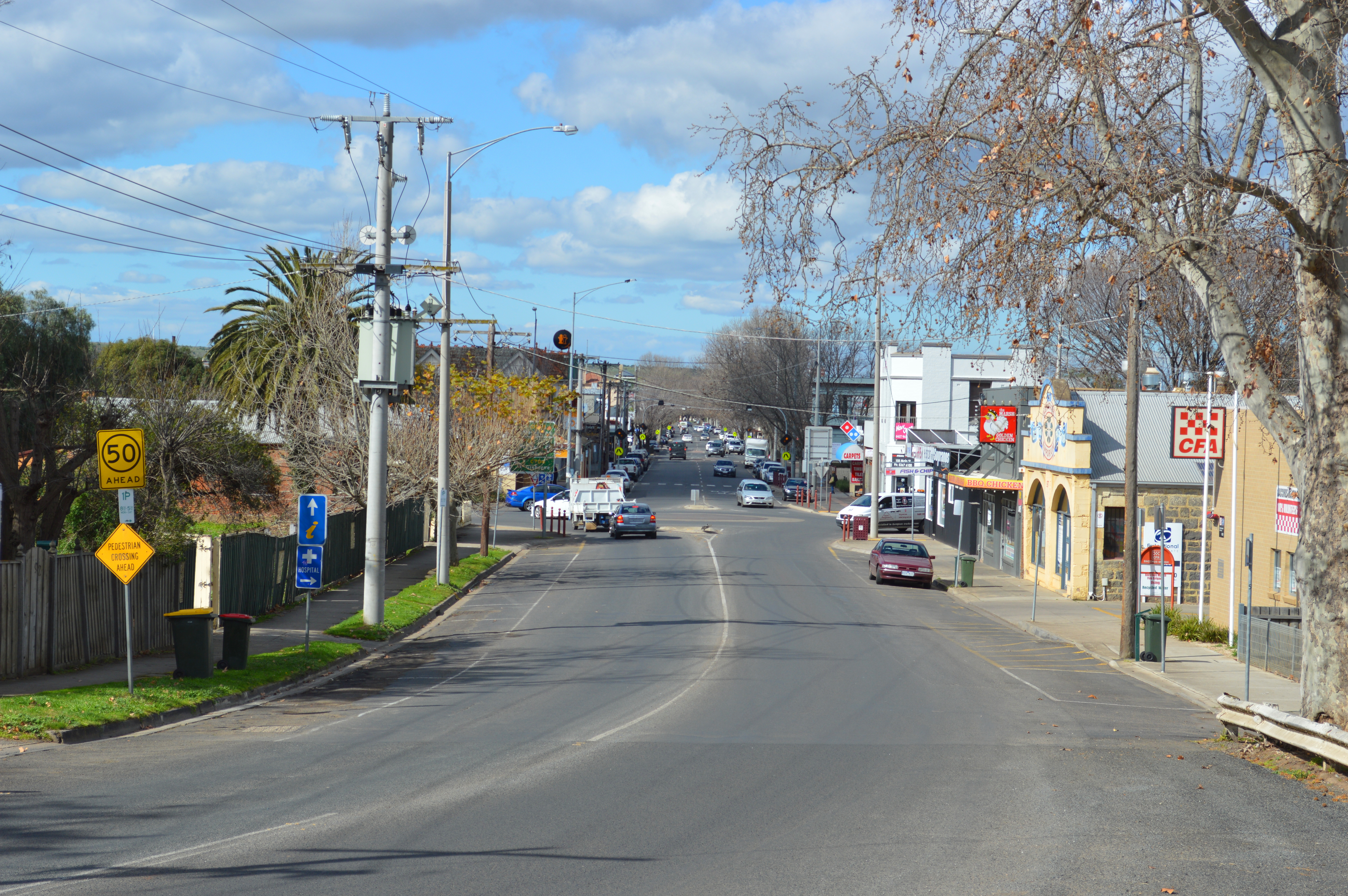 Main Street at Bacchus Marsh, Victoria